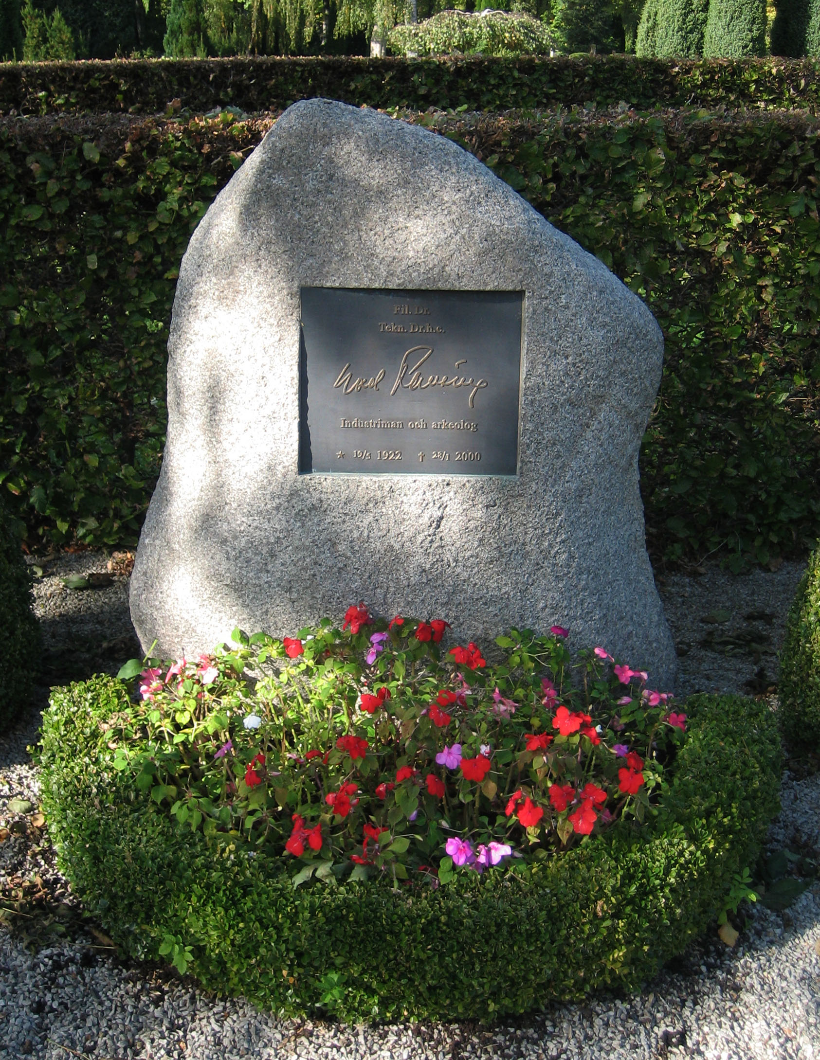 The grave of Gad Rausing (1922-2000), swedish businessman (Tetra pak) and archeologist. Photo taken at Norra kyrogården, Lund, Sweden 2008-10-07 by the uploader.